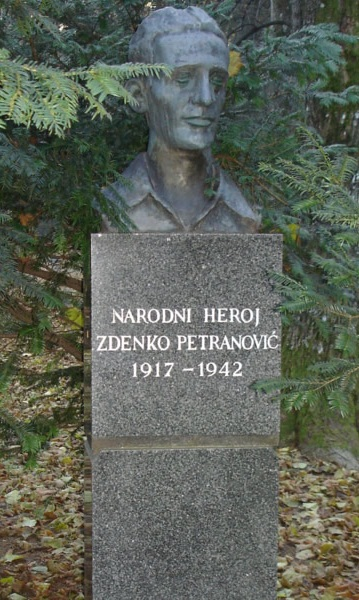 Bust of People's hero of Yugoslavia, Zdenko Petranović, Park of the People's heroes in Delnice.